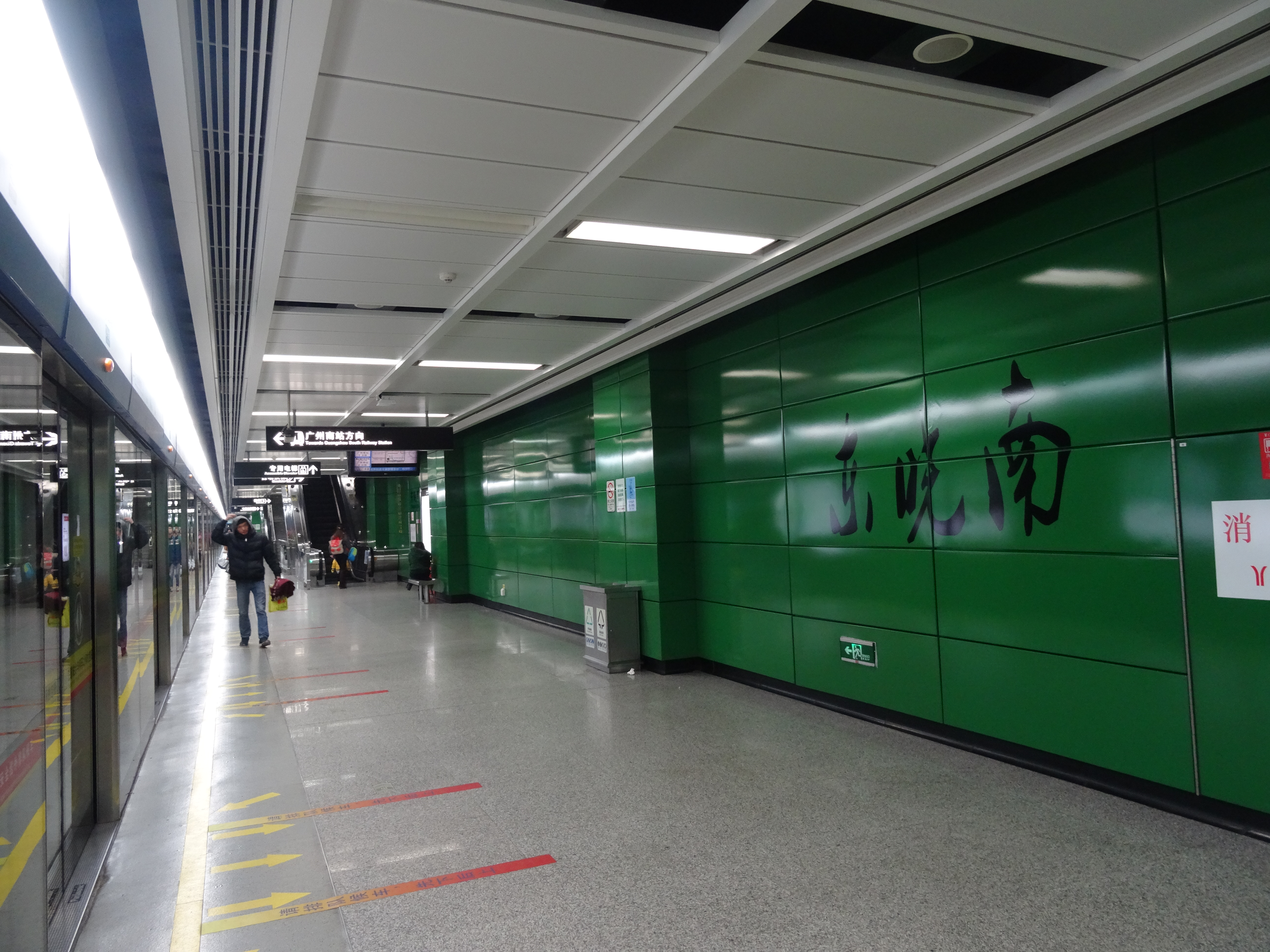 东晓南站嘅月台